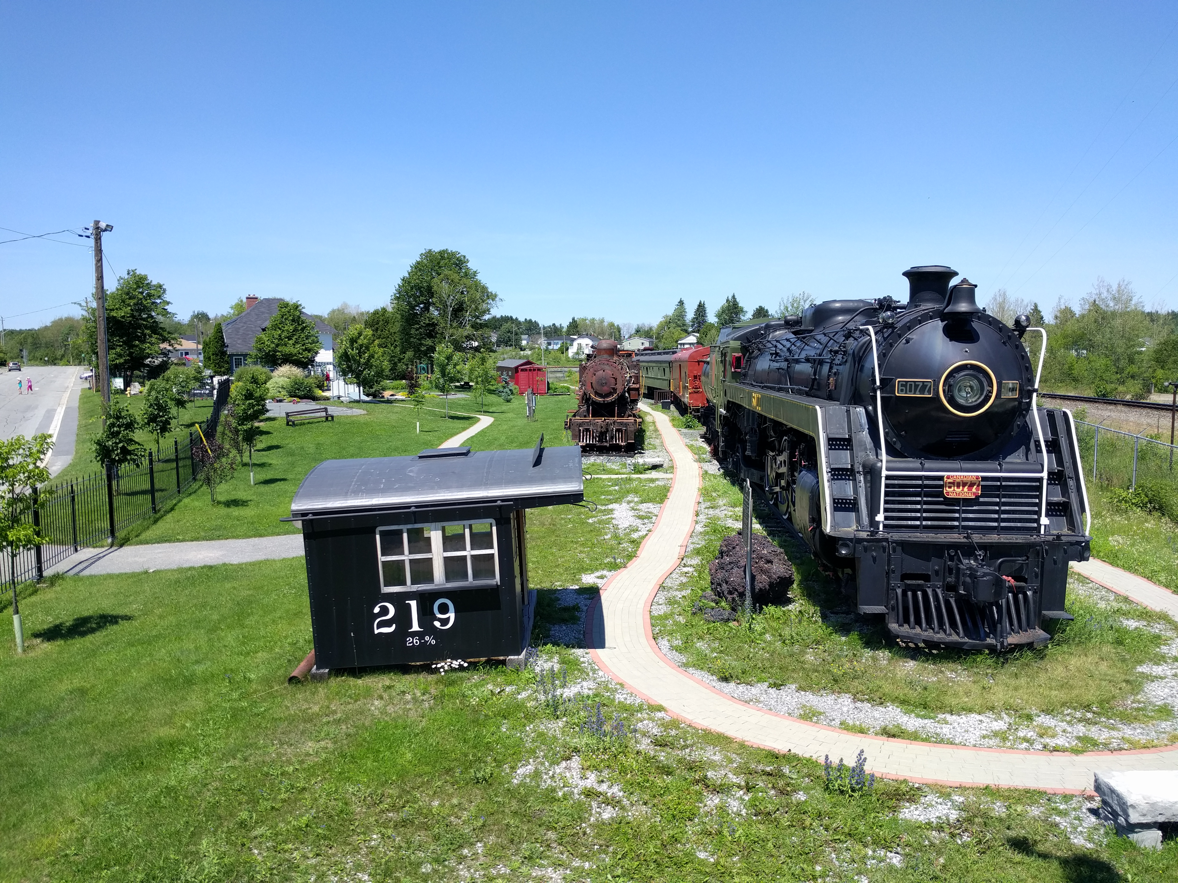 NORMHC Shot of Prescott Park, taken atop the "Sudbury Meteor" display.